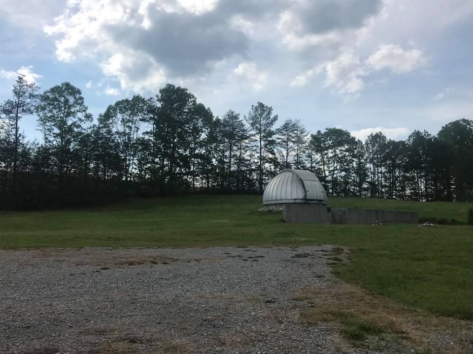 The James Wylie Shepherd Observatory is located roughly three miles from the University of Montevallo on the 150-acre Gentry Springs site owned by the university. The site offers excellent dark-sky observing in a convenient locale. It is the most state-of-the-art astronomical facility in Alabama. The JWSO is capable of world-class astronomical telescopic observation and astrophotography, has a dedicated telescope for solar viewing, and is one of very few observatories in the country that is designed specifically to be completely accessible to people of all disabilities.